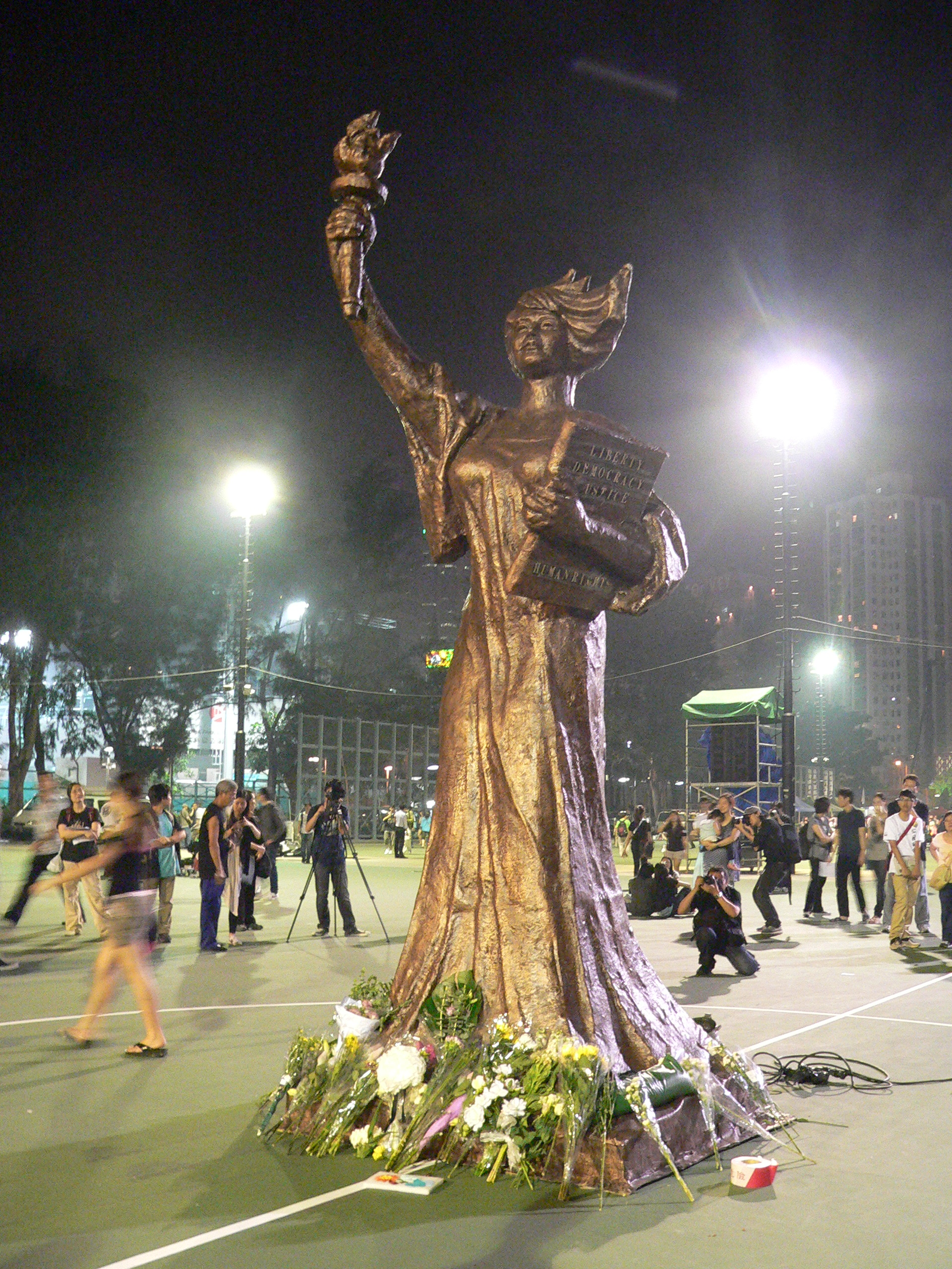 Replica of the statue "Goddess of Democracy" from the Tiananmen square protests in 1989. Photo taken in Victoria Park, Hong Kong, during the commemoration event for the 21st anniversary of the massacre.